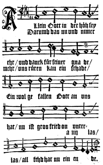 Allein Gott (German Gloria) from the Kirchengenge Deudsch of Johann Spangenberg published in Magdeburg, 1545, to adaptation of Gloria by Nikolaus Decius (1522)